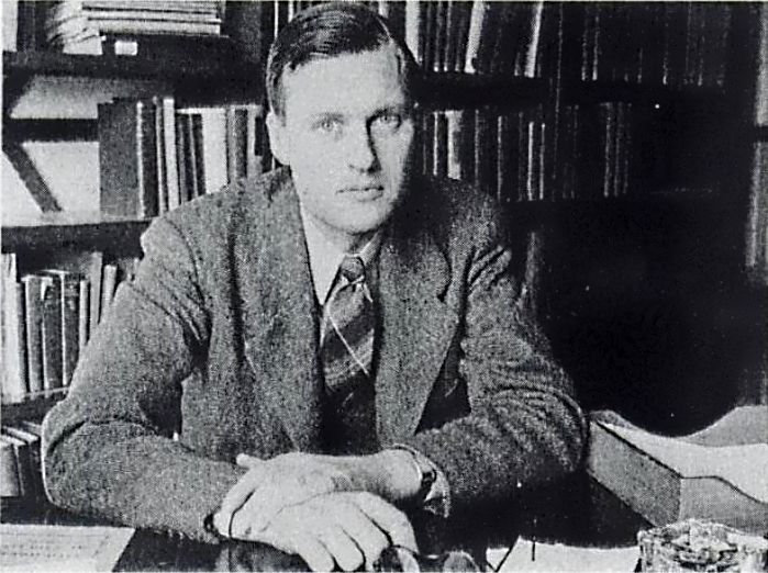 1940's photograph of Robert Richardson Sears.